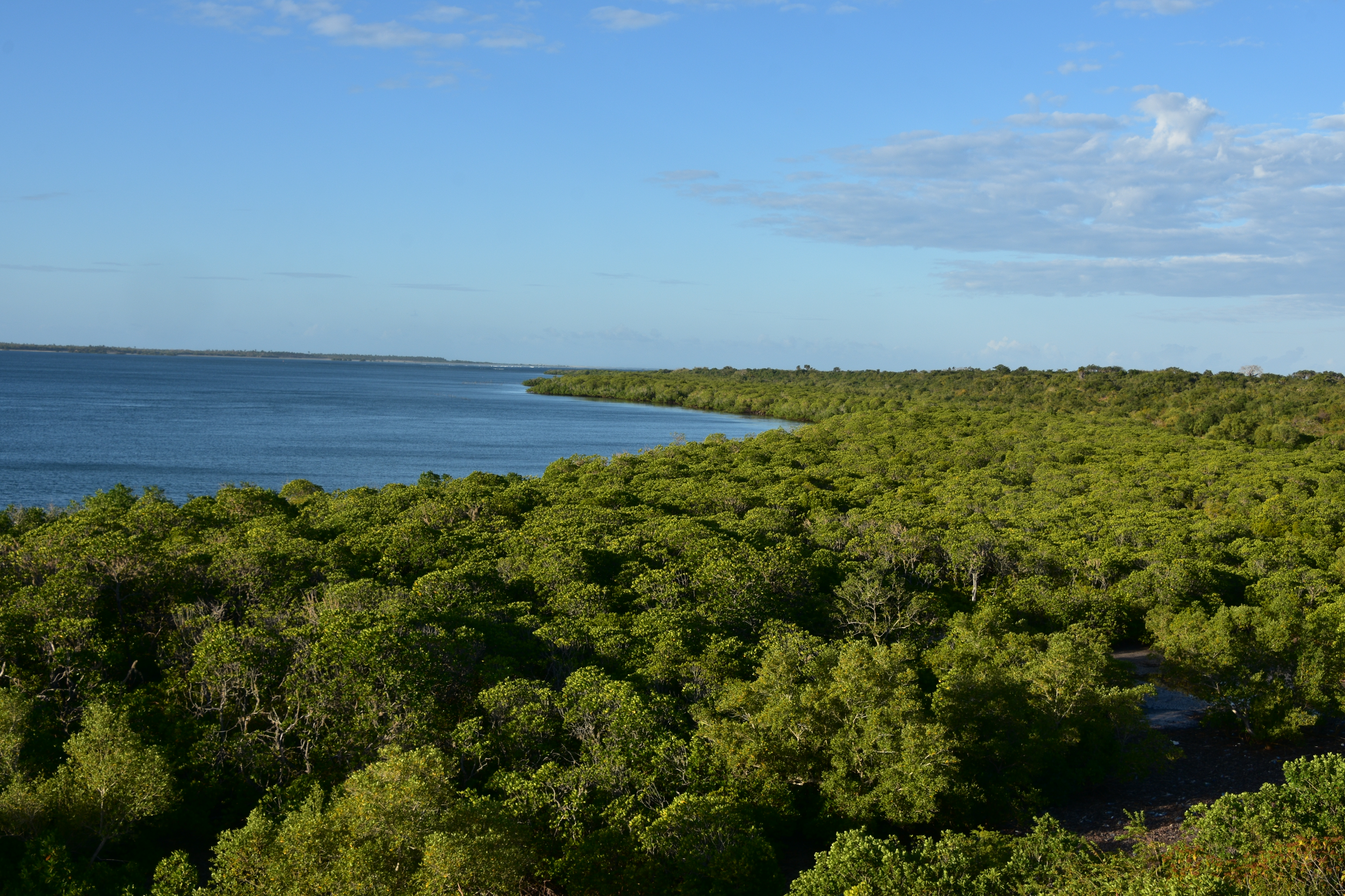 Mangrove forests on Kilwa Kisiwani